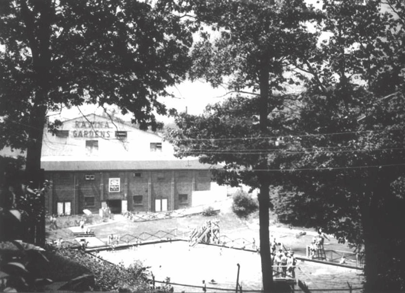 Ravina Gardens Arena and Pool viewed from Evelyn Crescent Toronto. Photo courtesy of Mr. Barry Ritch